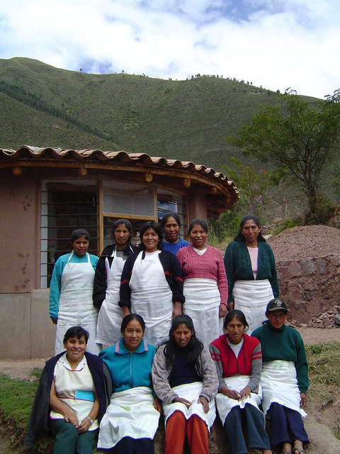 Sra. Charo and the Q'ewar dollmakers. The Q'ewar Project is a social work initiative in the small village of Andahuaylillas, in the rural highlands of Peru's Andes Mountains. It was founded in 2002 and aims to equip indigenous women with skills necessary for economic independence, to provide a humane and respectful working environment, and to foster self-esteem.